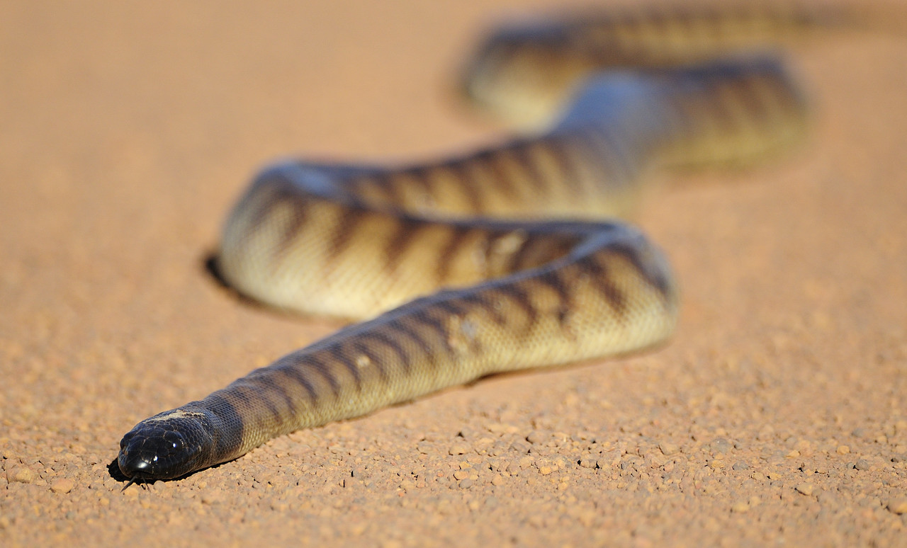 Black-headed Python - Aspidites melanocephalus - seeking warmth on the road on a cold morning near Borroloola, Northern Territory